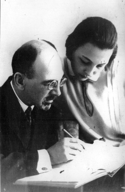 Mikheil Javakhishvili with his elder daughter Ketevan